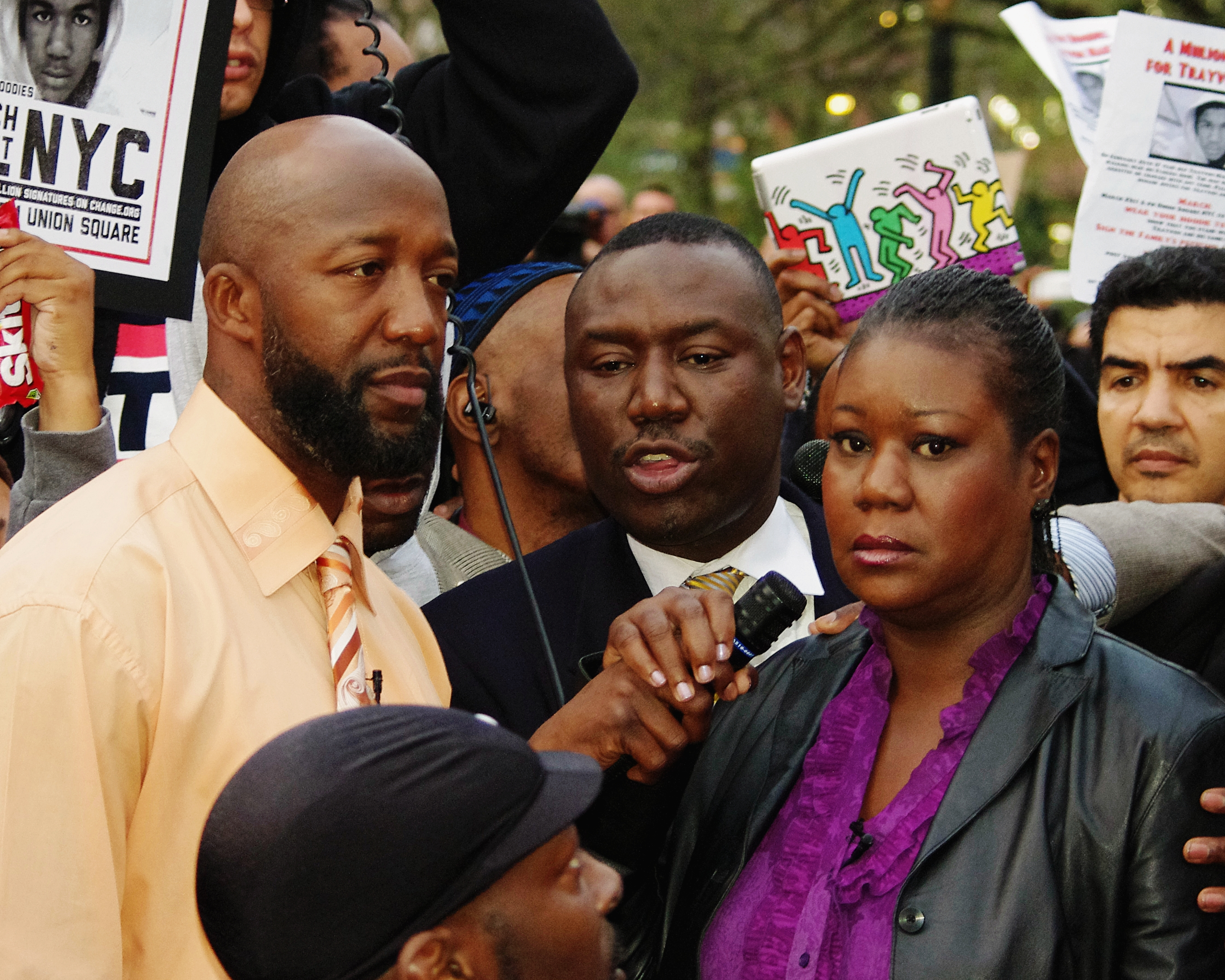 Trayvon Martin's father Tracy Martin and his mother Sabrina Fulton are seen here at the Union Square protest against Trayvon's shooting death.